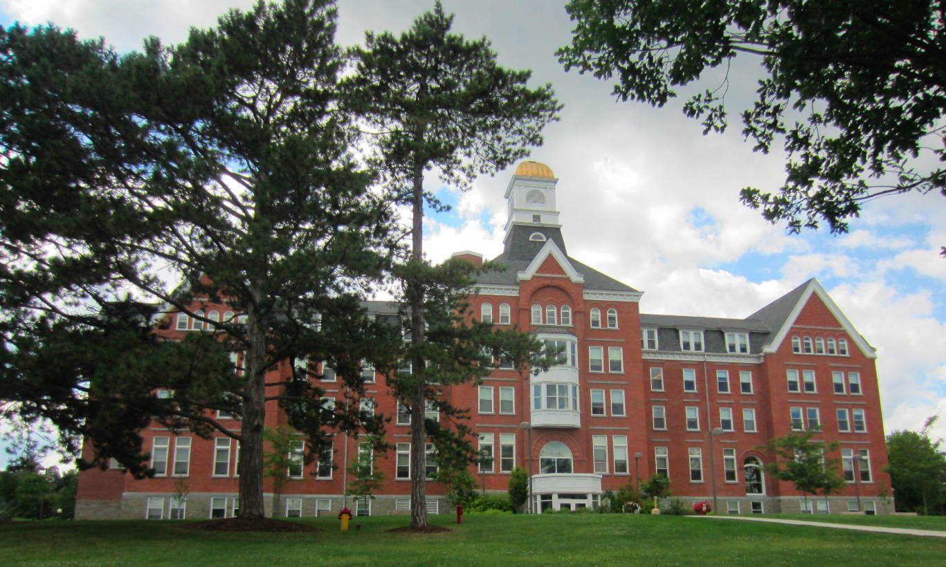 Historic Ball Hall at Keuka College, New York